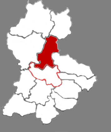 Location of Fangshan county in Lüliang City, China